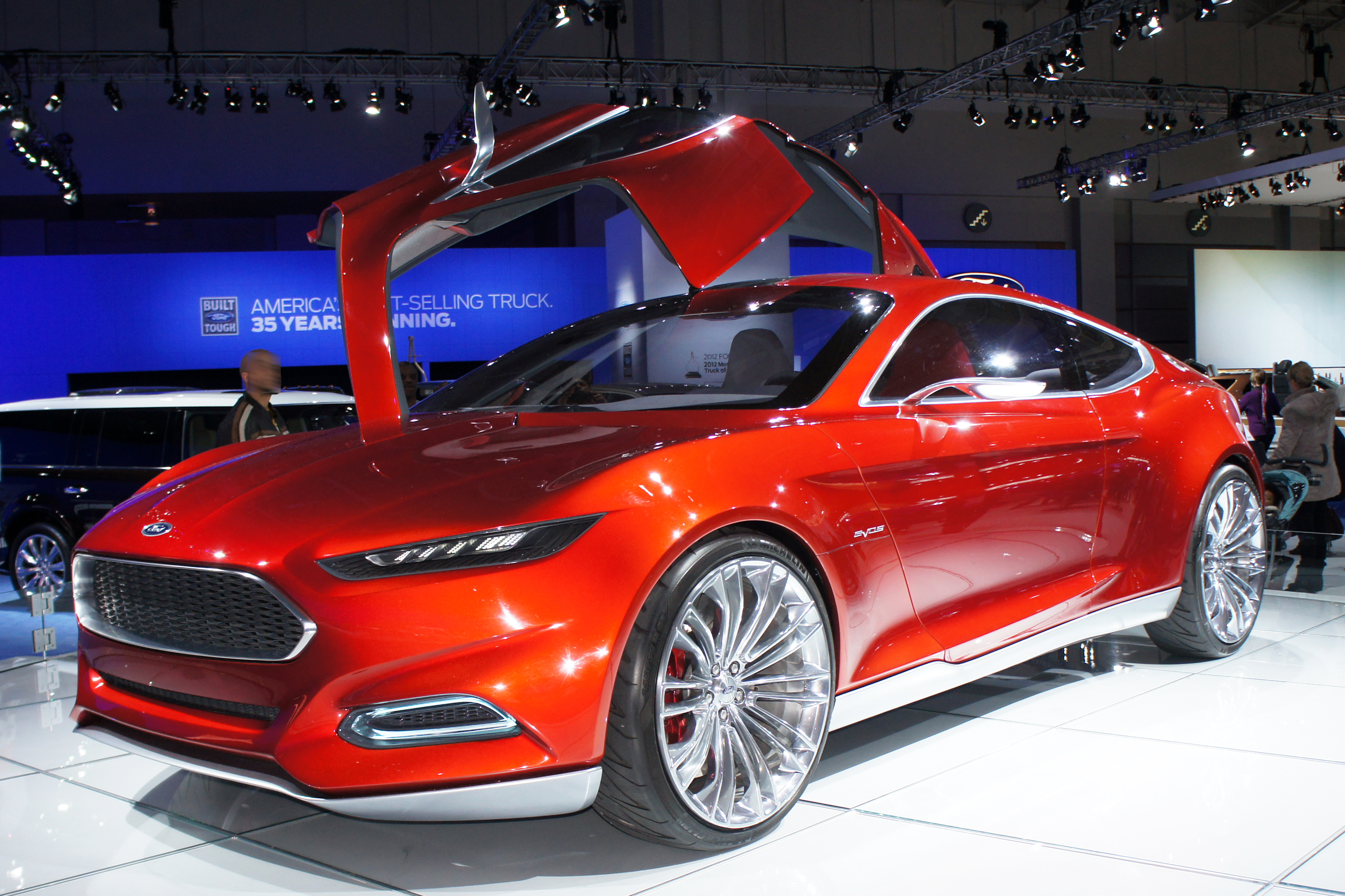 Ford Evos Plug-in Hybrid at the 2012 Washington Auto Show (D.C.)